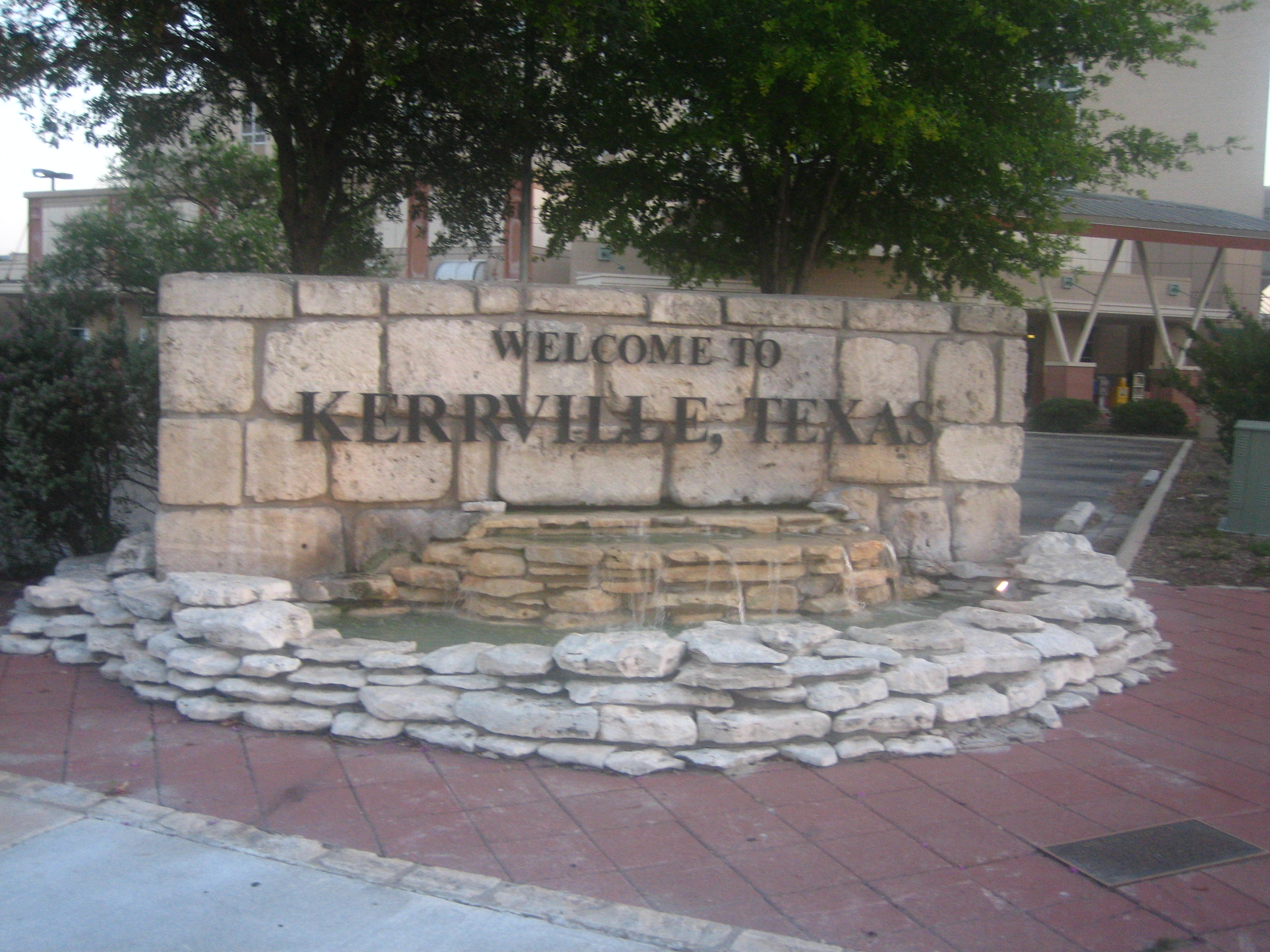 I took photo on July 18, 2008.Billy Hathorn (talk) 15:41, 20 July 2008 (UTC)